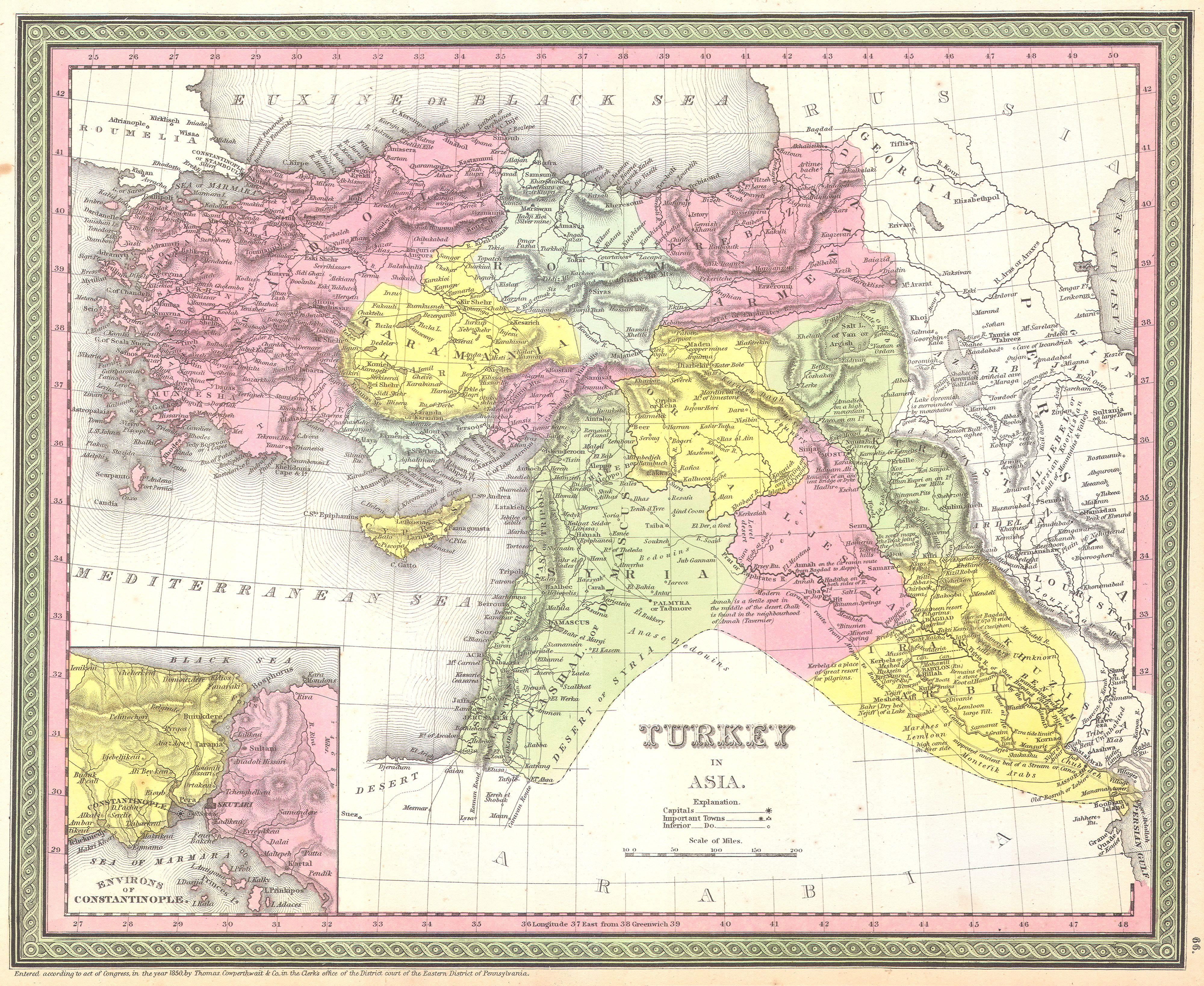 This beautiful hand colored map is a lithographic engraving of Turkey in Asia, dating to 1850. Beautiful map depicts most of modern day nations of Turkey, Iran, Iraq, Israel, Palestine, Jordan, Syria, Lebanon and Kuwait. There is a beautiful inset of the Environs of Constantinople or Istanbul. Produced by the legendary American map publisher S. A. Mitchell Sr. in conjunction with the Cowperthwait firm of Philadelphia, PA. Dated and copyrighted “1850 by Thomas Cowperthwait & Co in the Clerk’s Office of the District court of the Eastern District of Pennsylvania.”.